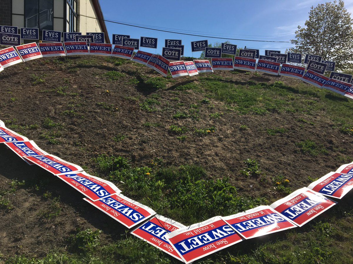 This is a picture of the some of the campaign signs at the 2018 Maine Democratic convention. Signs pictured include those for activist Betsy Sweet (shaped in a heart), attorney Adam Cote and former Speaker of the Maine House of Representatives Mark Eves. From May 18, 2018, at the Lewiston Colisee, Lewiston, Maine. Taken from my iPhone 7's camera and originally posted on my social media pages.